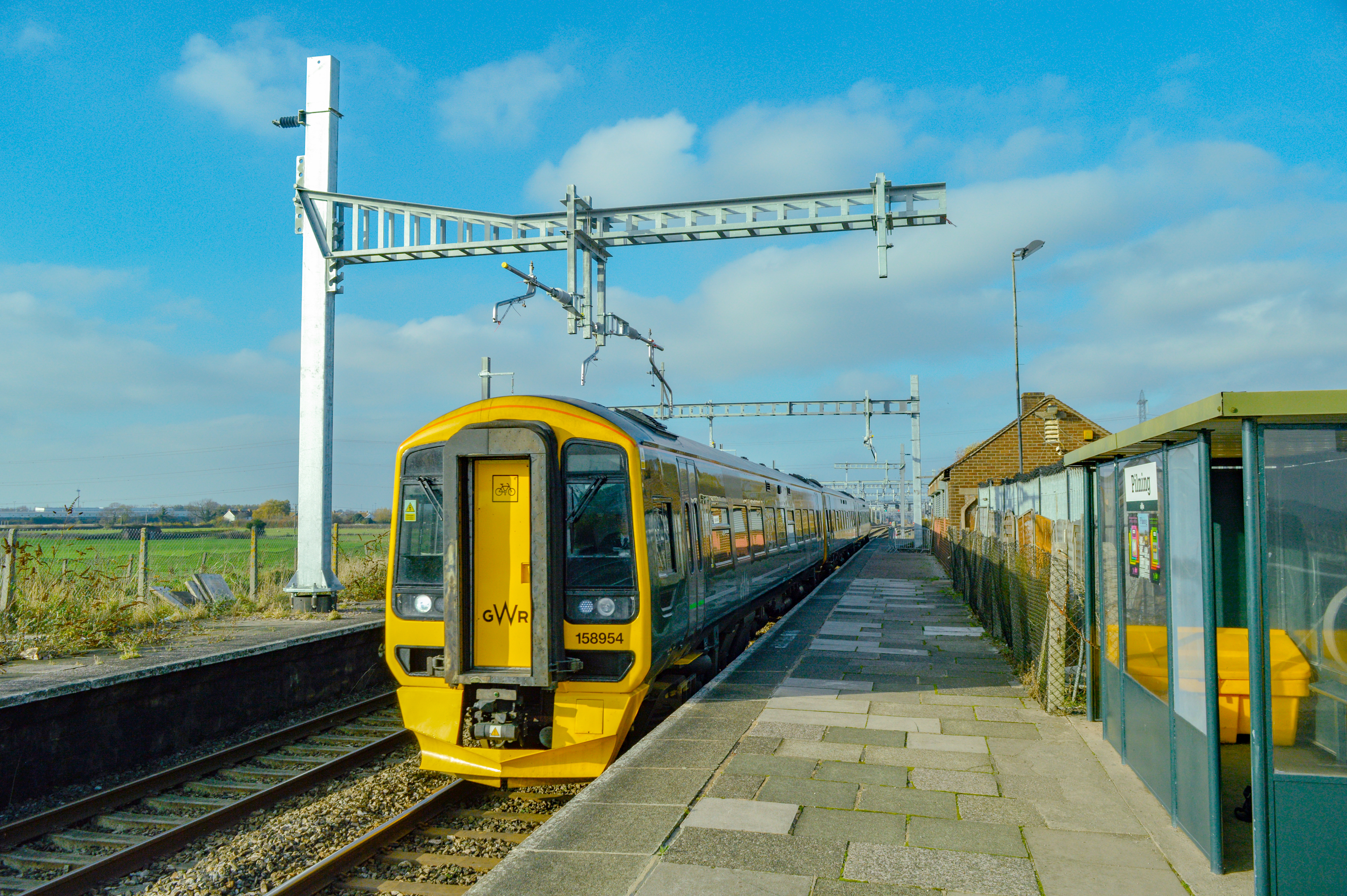 158954 2E20 1100 Cardiff Central to Gloucester